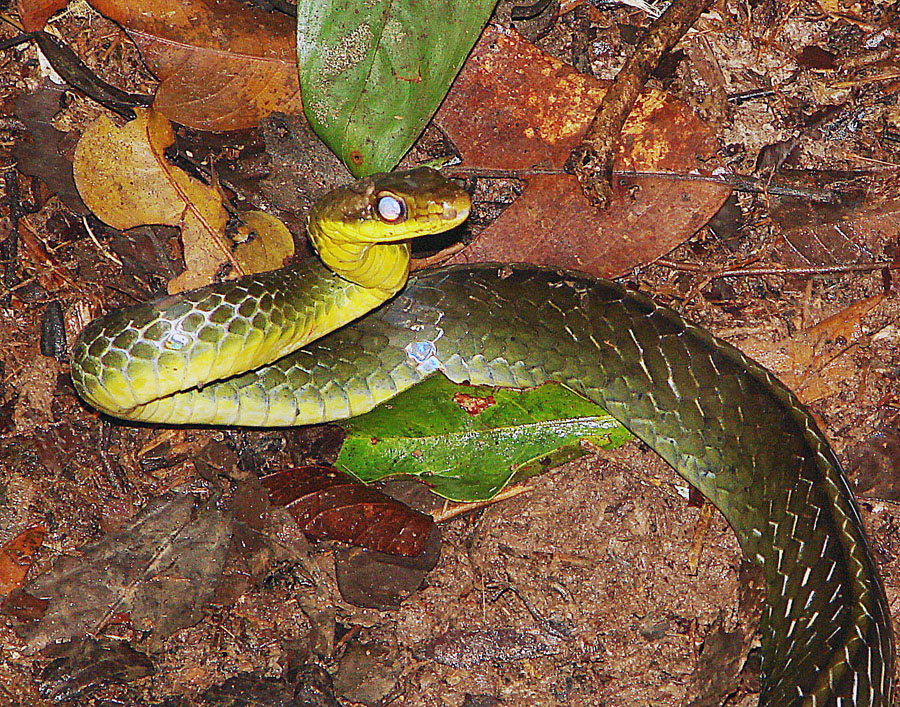 Aggressive, but not venomous, known as Sipo or Machete Savane. In context at